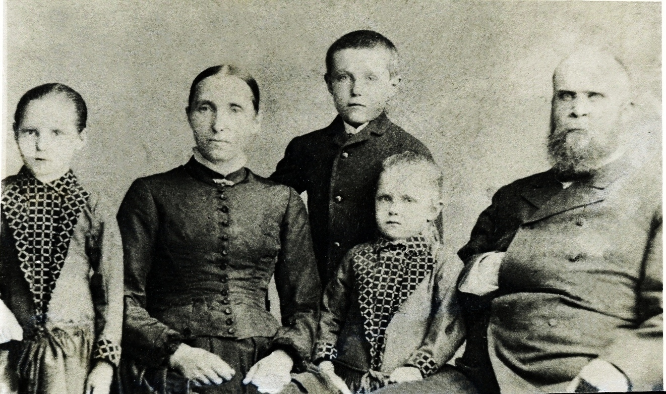 The first Chairman of the Union of Russian Baptists Johann Wieler (1839-1889) with his family. Wife-Helena (1851-1928), children:n Johann (1877-1935), Lydia (1879-1908) and Helena (1882-1967). Restored version of the photo